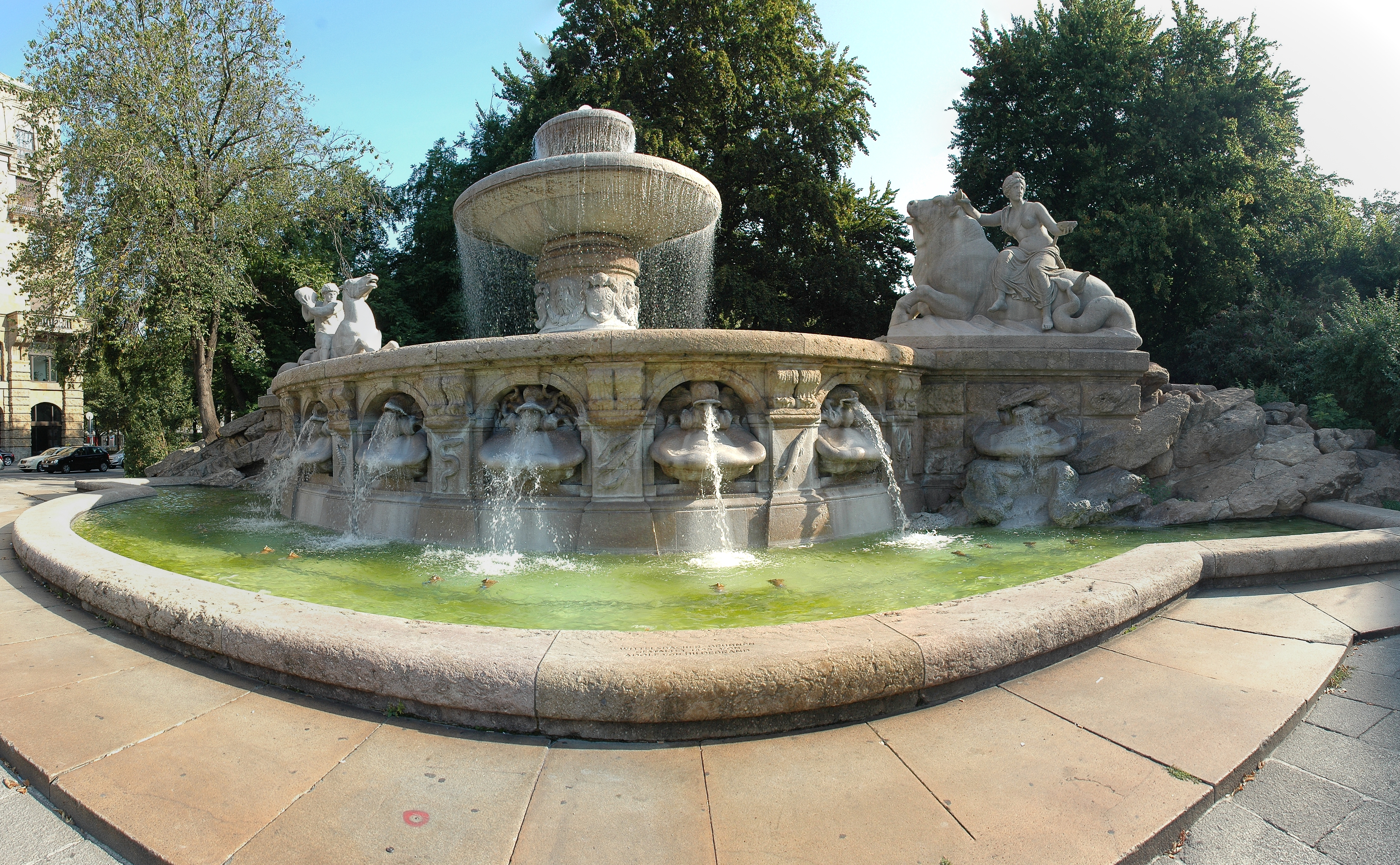 Wittelsbacher Fontain, Munich, Panorama